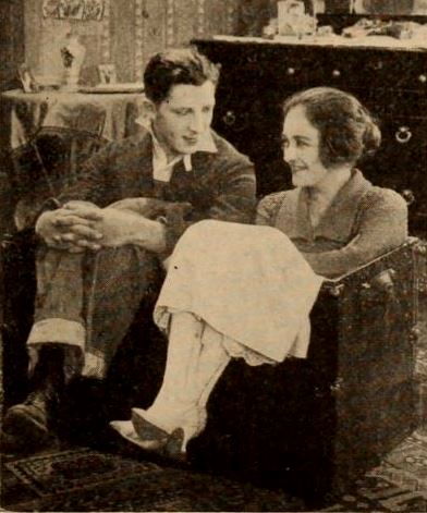 Still from the American comedy drama film Thieves (1919) with William Scott and Gladys Brockwell, on page 69 of the December 6, 1919 Exhibitors Herald.